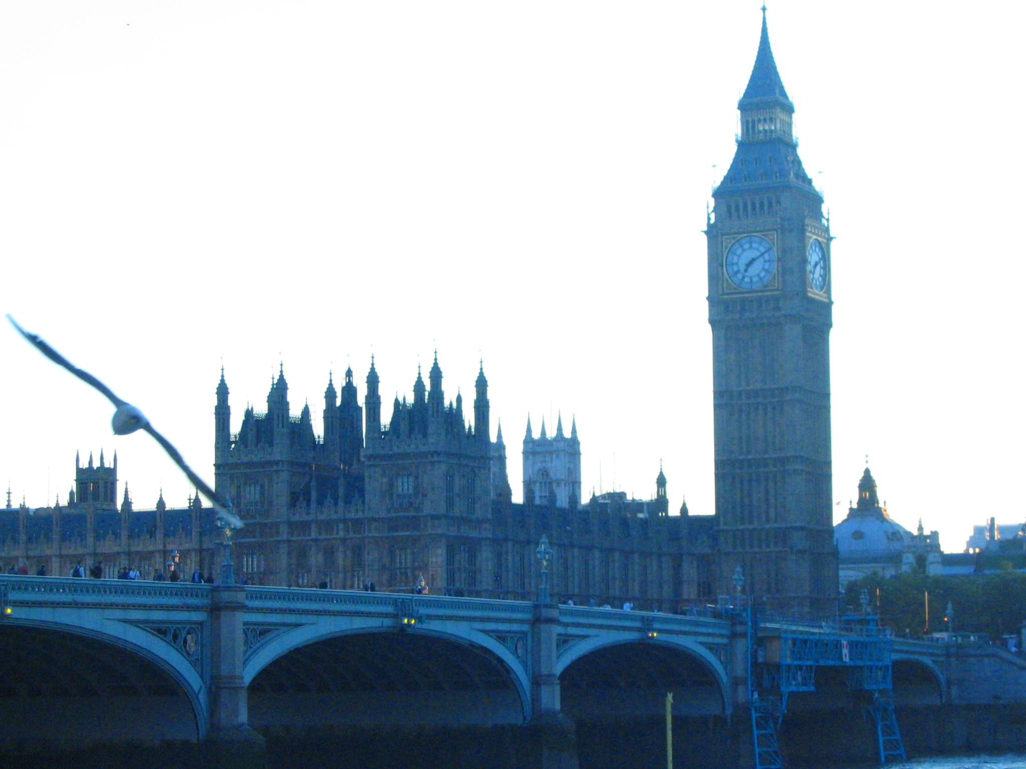 Palace of Westminster